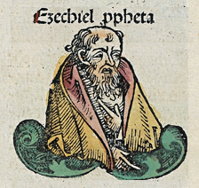 Prophet Ezechiel. Woodcut from the Nuremberg Chronicle